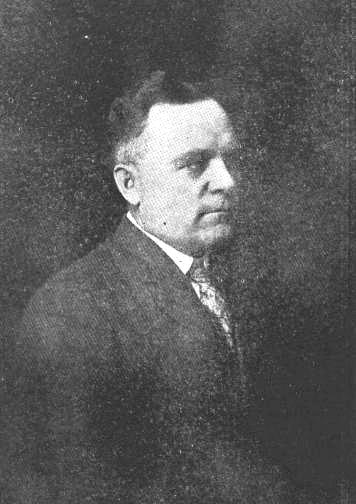 George S. Romney the president of Bannock Stake Academy, now Brigham Young University–Idaho, at the end of the First World War.